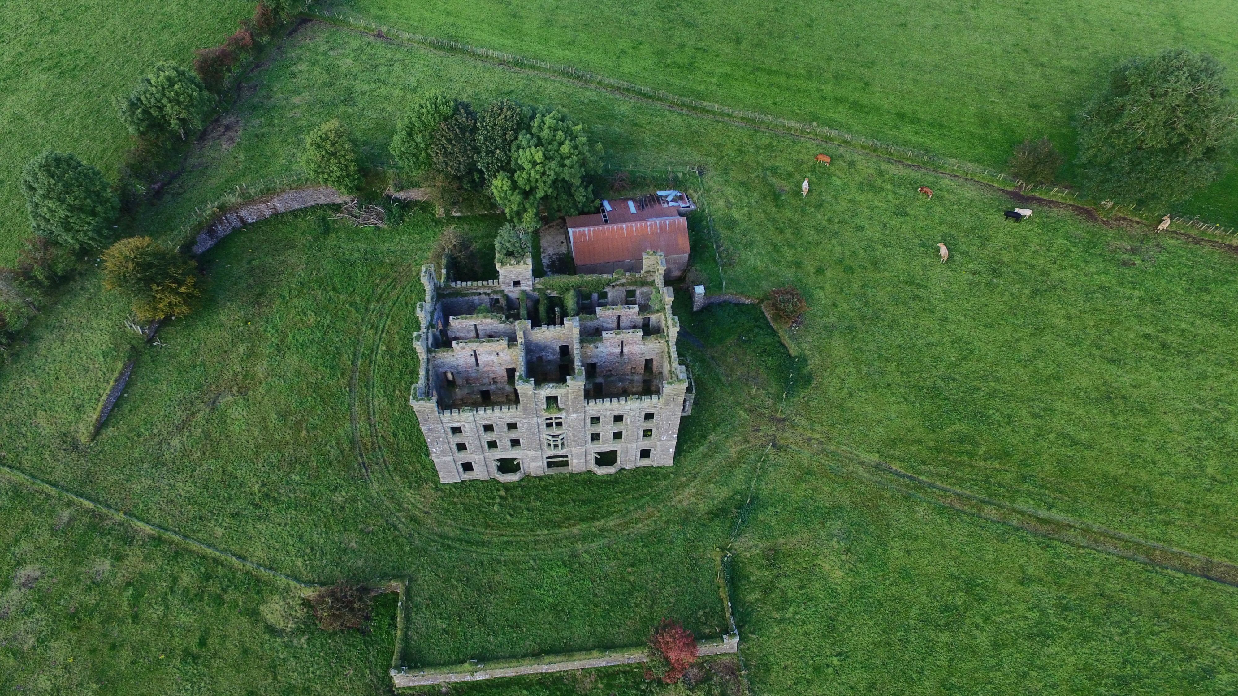 Drone shot of Ogilbys Castle Donemana